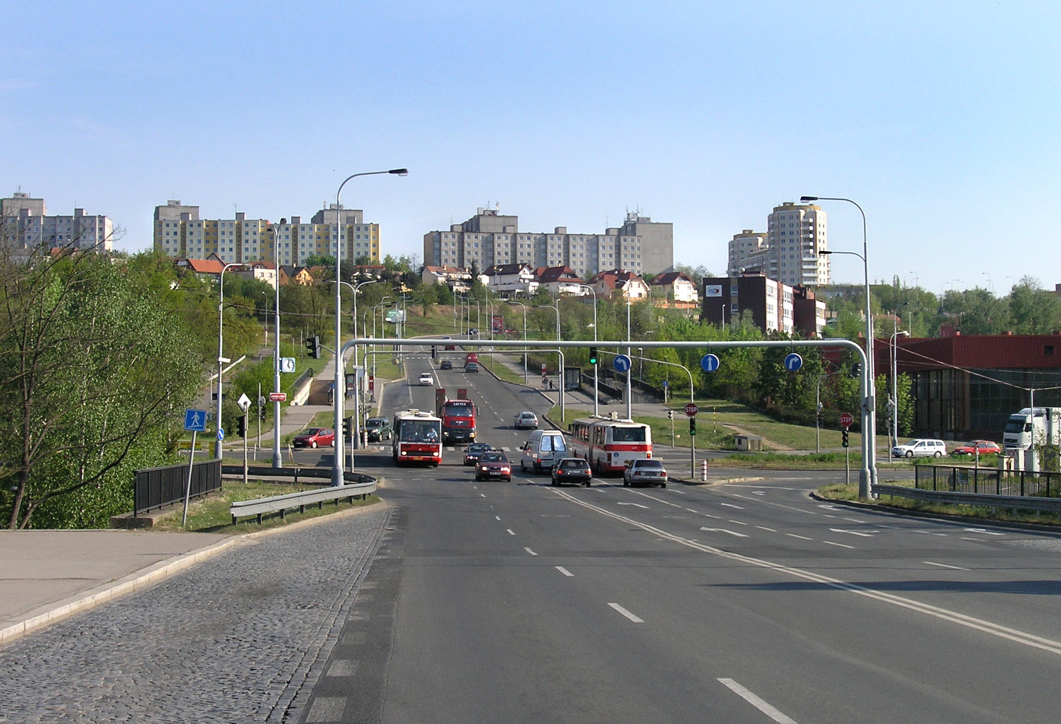 Československého exilu street at Modřany, Prague